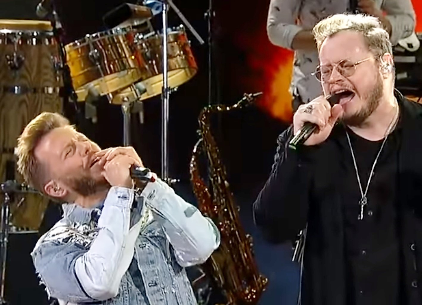 Mexican pop music duo Sin Bandera singing at Viña del Mar International Song Festival in February 2017.